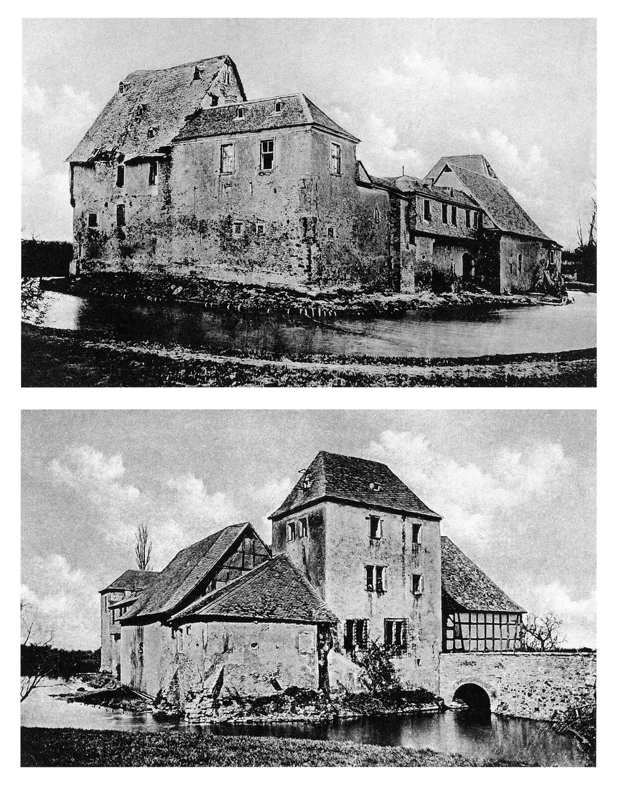 Frankfurt on the Main: Kuehhornshof as seen from south west (top) and from south east (bottom)